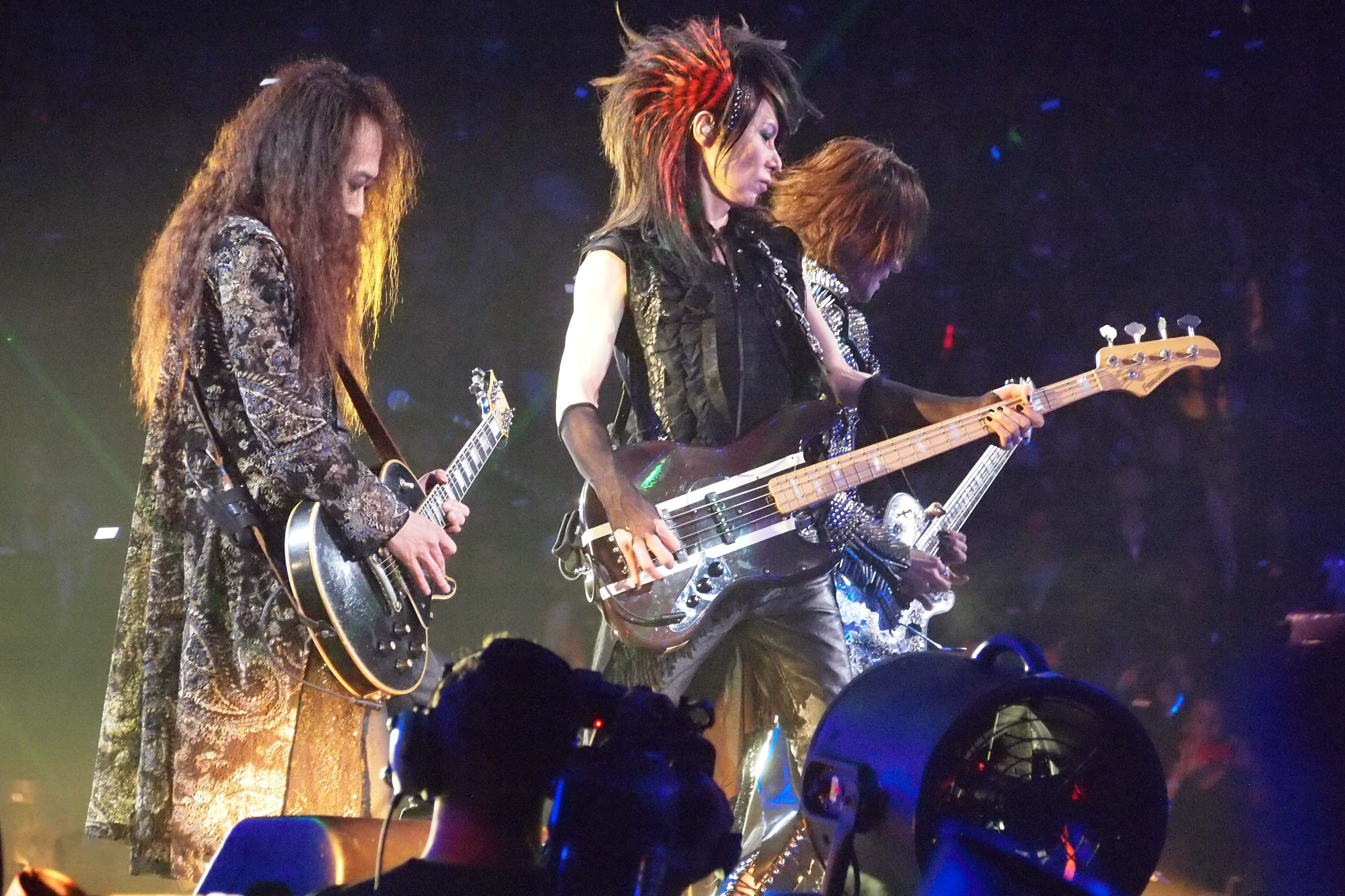 Pata, Heath and Sugizo with X Japan at Madison Square Garden, in New York, on October 11, 2014.